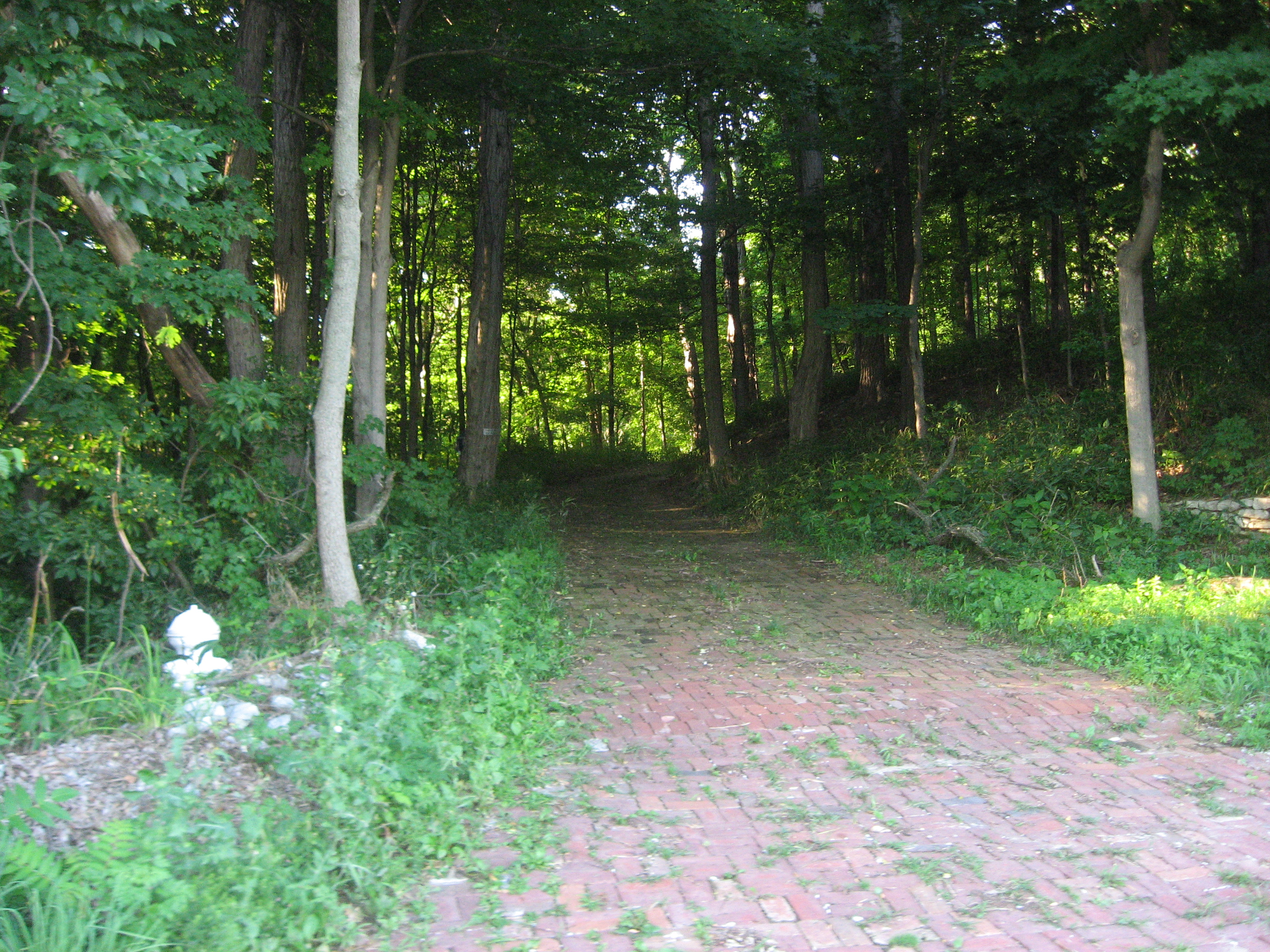 Driveway to Butternut Hill, located 4430 Wabash Avenue in Terre Haute, Indiana, United States. Built in 1835, the house is listed on the National Register of Historic Places.